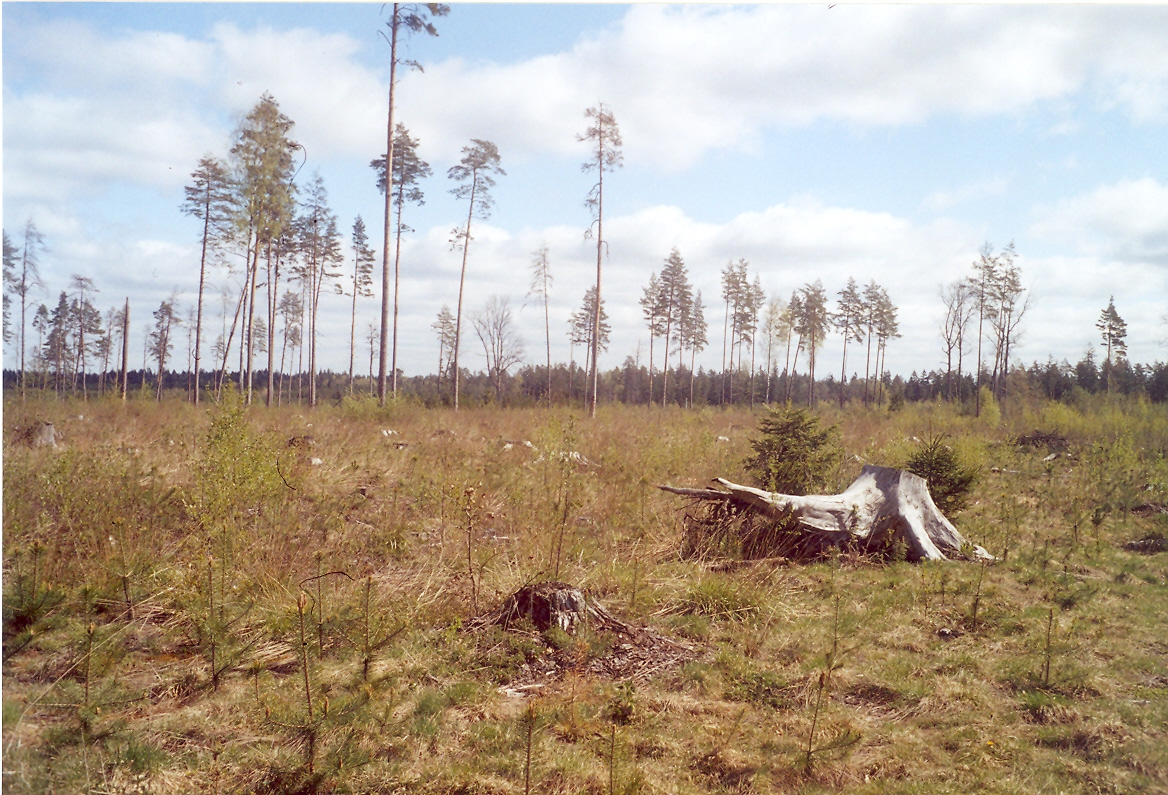 Clean cut area, east from Bialowieza, Poland.